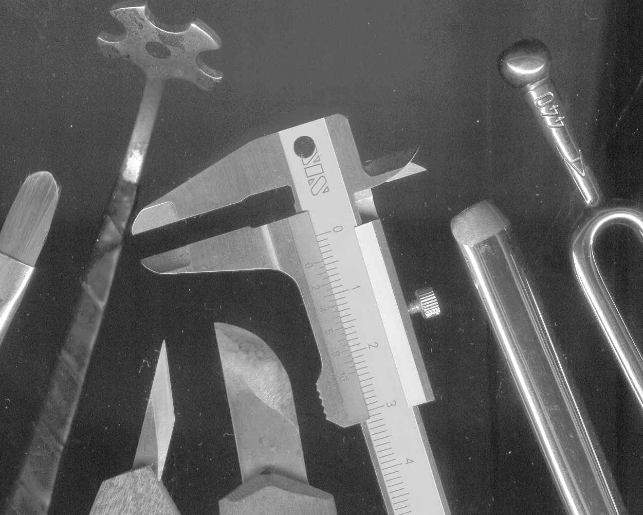 more for use as a heading marker, or "finger post" than anything else